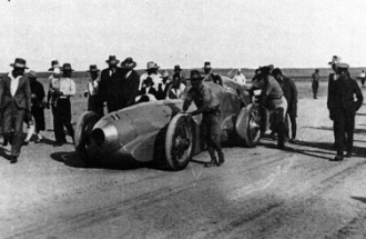 Campbell-Napier-Arrol Aster Blue bird in Cape Town, 1929